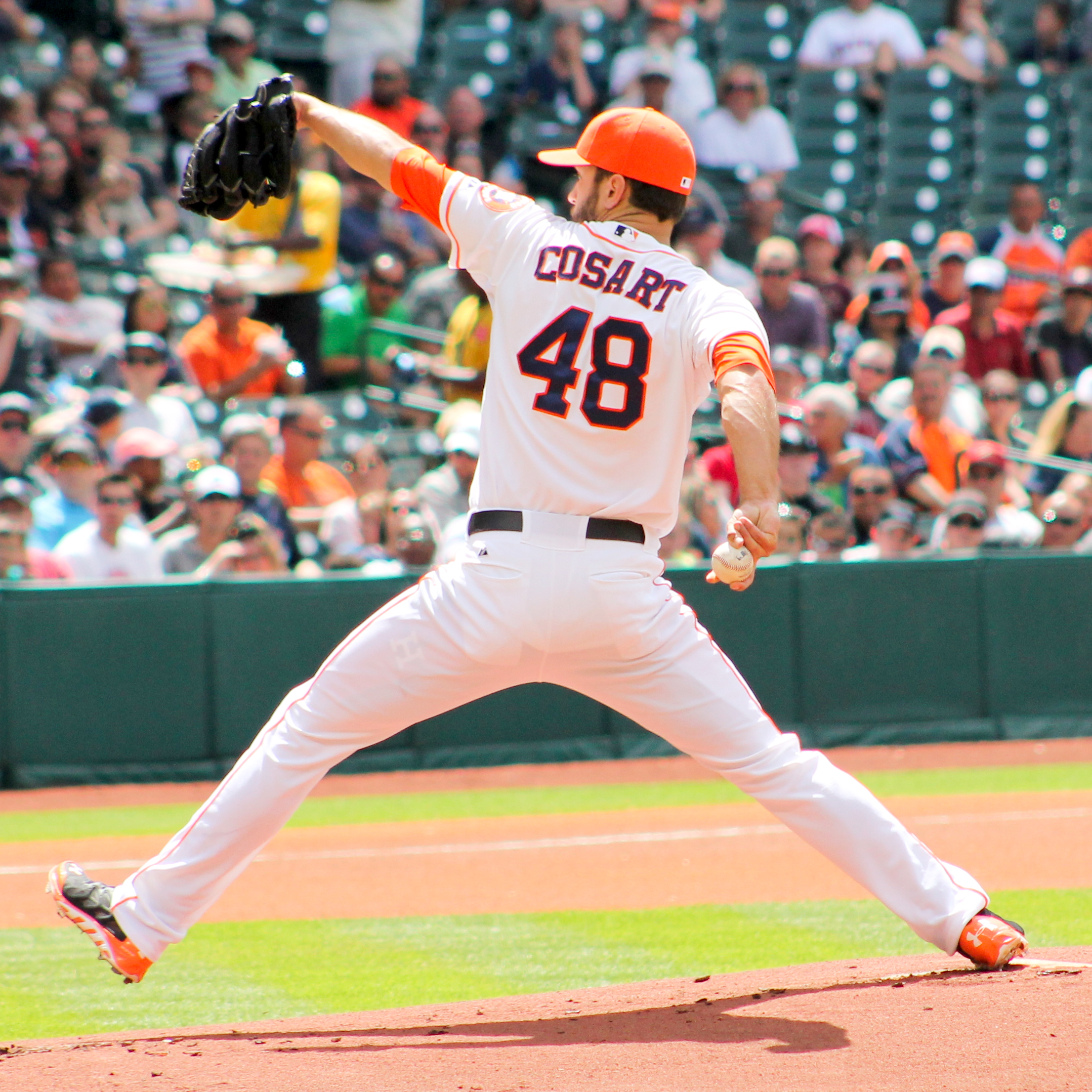 Houston Astros pitcher Jarred Cosart during a May 2014 game in Houston.